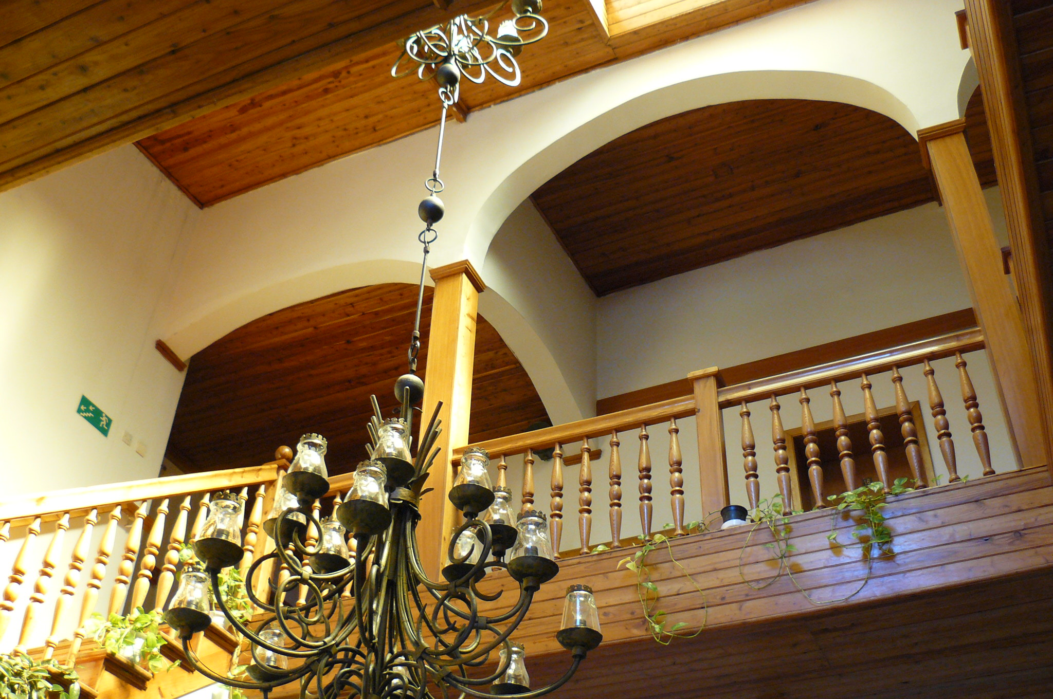 Kołaczkowo palace - interior.